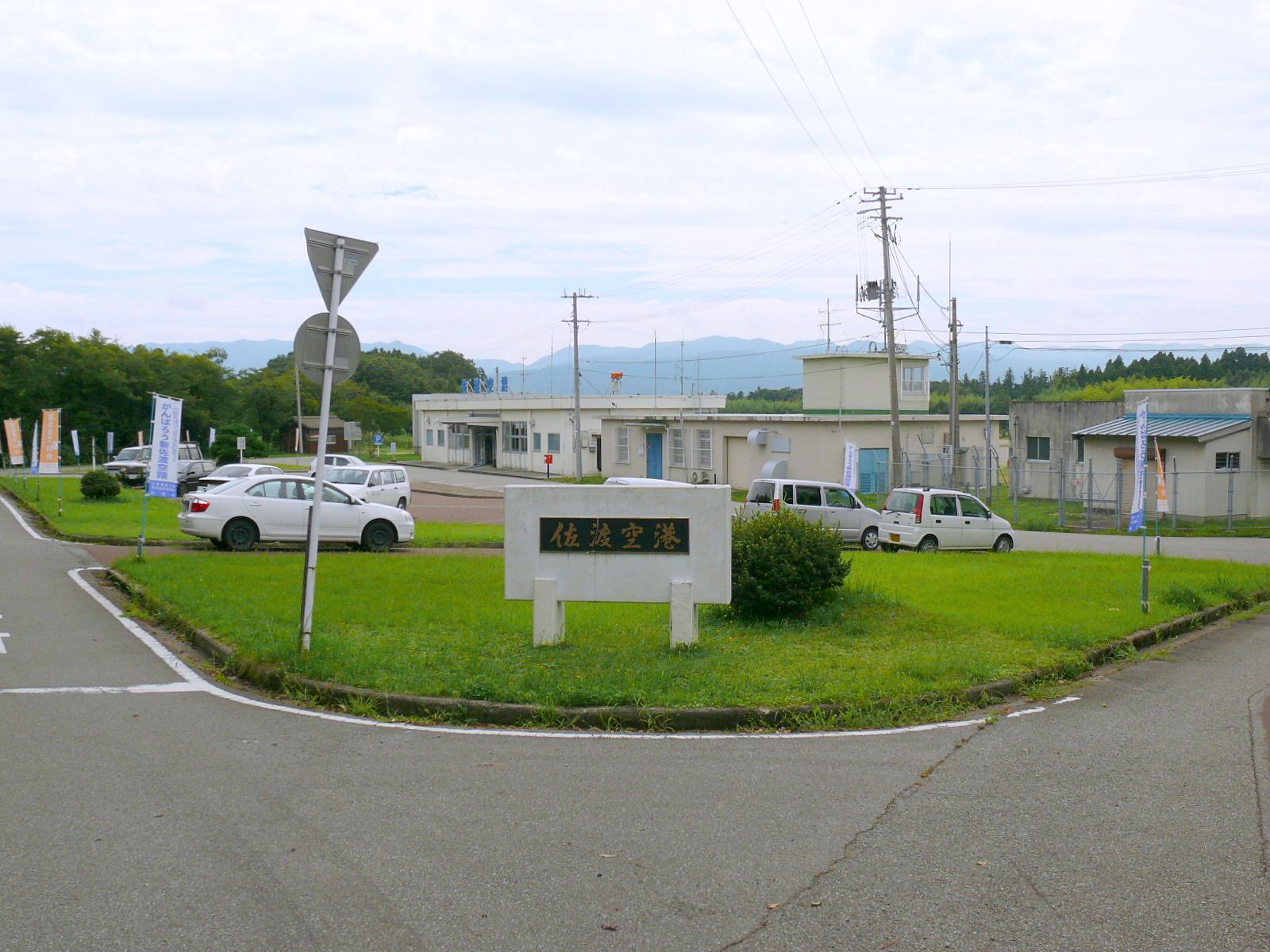 Sado Airport Front Street(Japan).